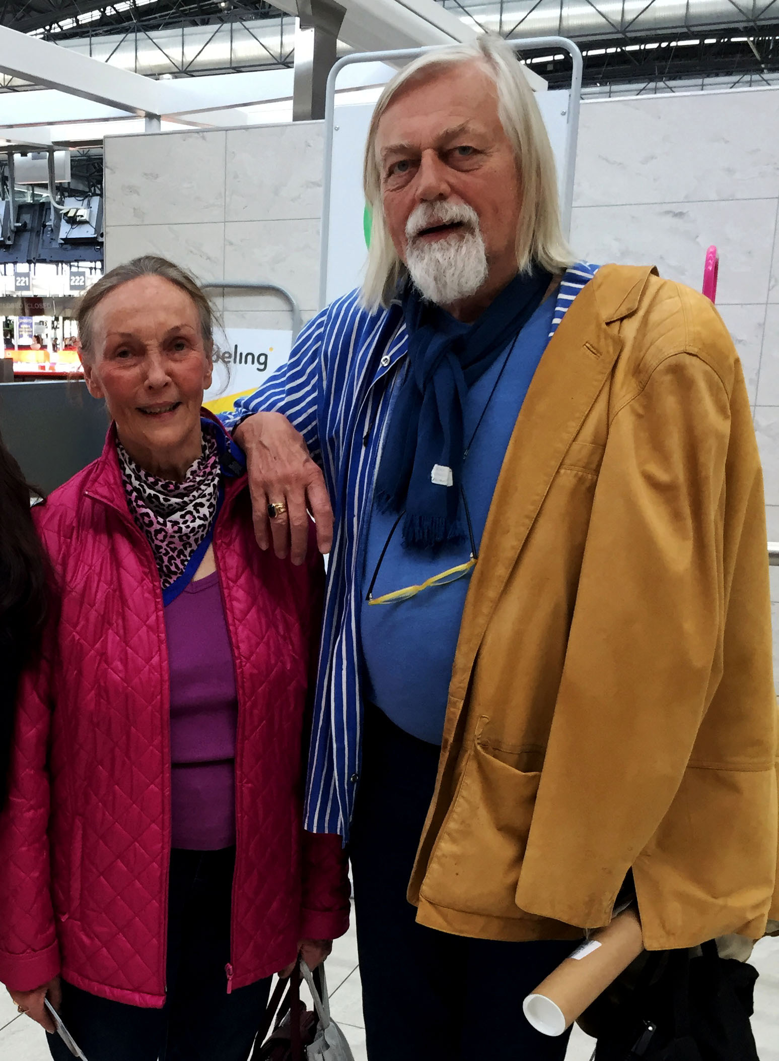 Ballet dancer and choreographer Aku Ahjolinna with his wife Saga Eriksson (Prague, 2019)